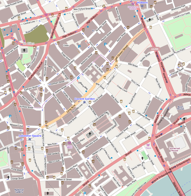 Map of Covent Garden exported from OpenStreetMap “© OpenStreetMap contributors, CC-BY-SA”